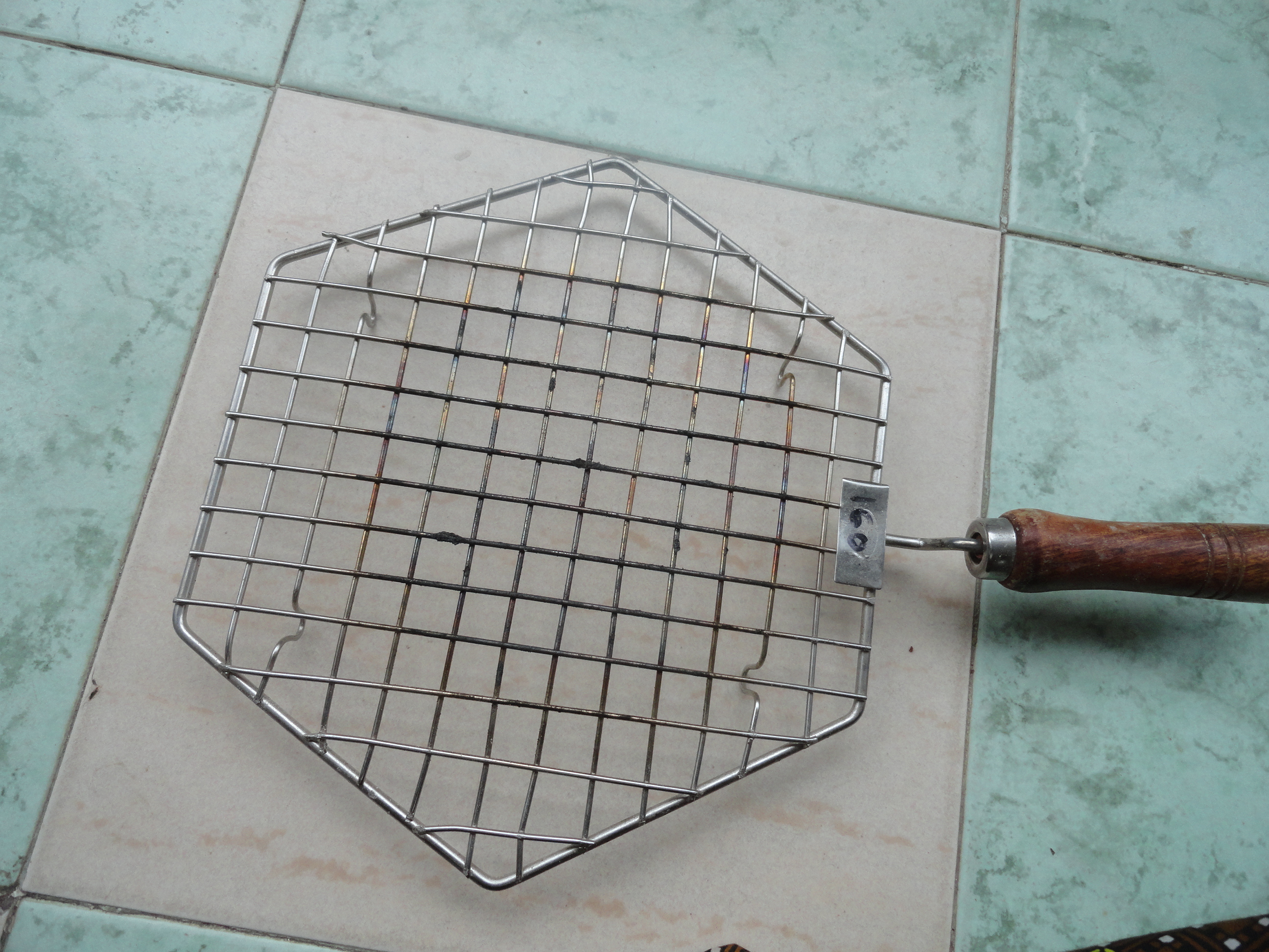 చపాతీలు కాల్చే గ్రిల్